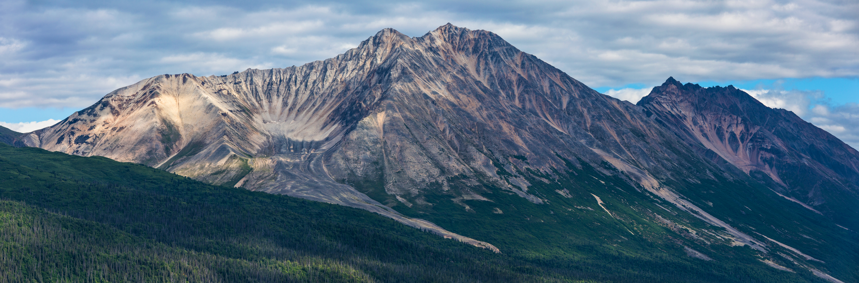 Porphyry Mountain and National Creek Rock Glacier From Western Root Glacier Camp